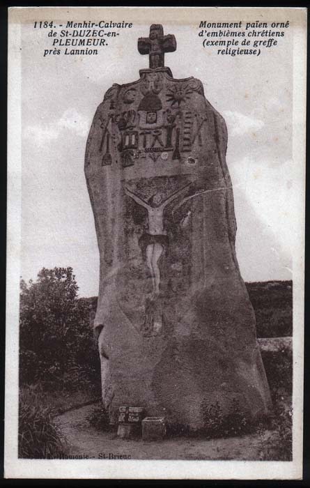 The St. Uzec menhir is estimated to weigh around sixty tons, and is dated to around 2,500 BC. The stone was Christianized in the seventeenth century by the devout Jesuit missionary, Padre Maunoir.